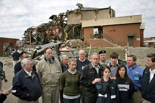 US President George W. Bush talks with the media after walking through the tornado damage at Enterprise High School in Enterprise, Alabama, Saturday, March 3, 2007. "And today I have walked through devastation that's hard to describe," said the President. "Our thoughts, of course, go out to the students who perished. We thank God for the hundreds who lived."